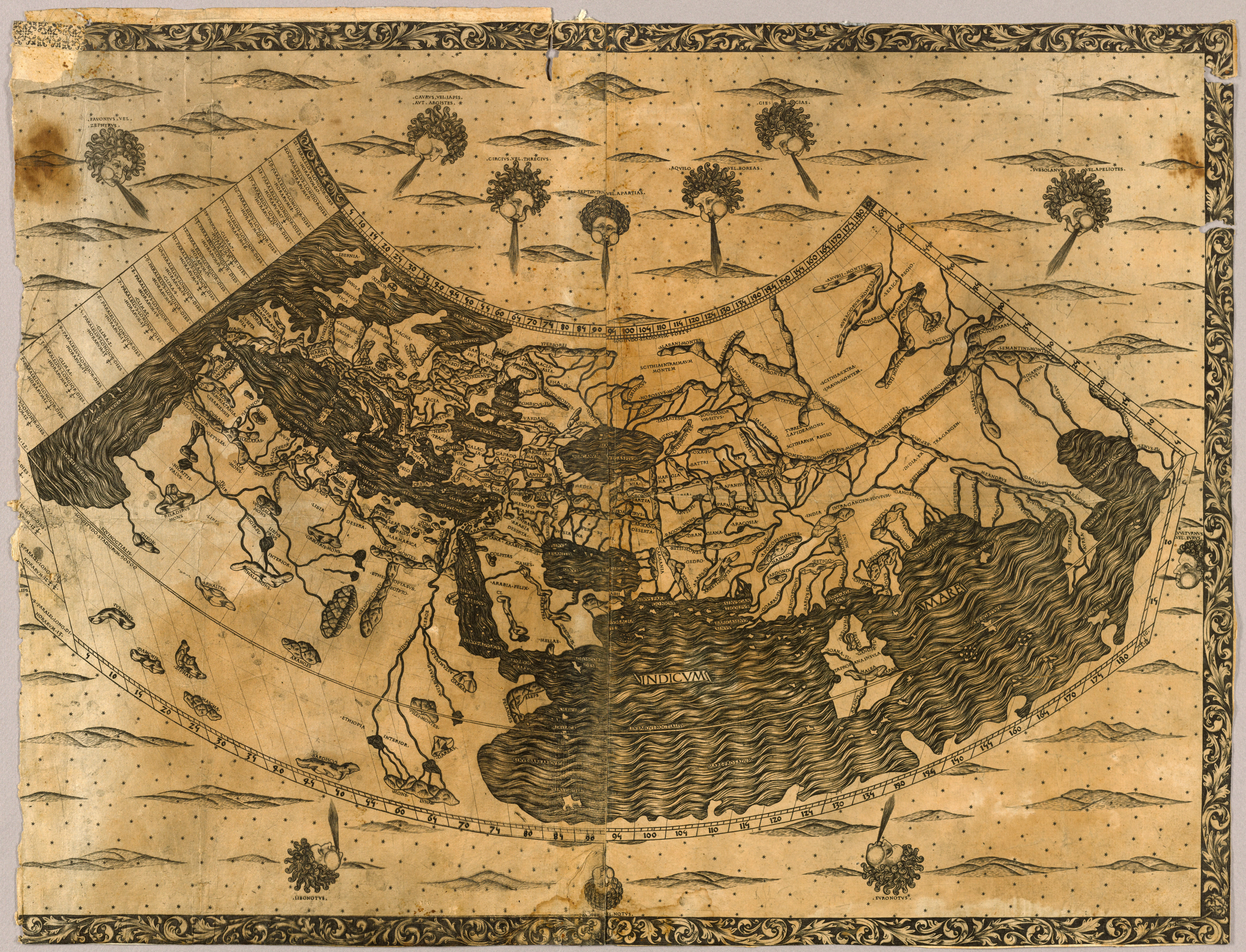 A world map separately published by Taddeo Crivelli, the engraver generally credited with the maps for the 1477 Bologna Ptolemy, and his partner Francesco Puteolano on 22 April 1474. No original copies survive. Four copies survive of a reprinting from the original plate by Petrus de Nobilibus at Rome in the late 16th century, c. 1590. Facsimile republished by Lino Sighinolfi in 1909 and by Youssouf Kamal, prince of Egypt, in 1928. Republished in photostat in 1932. 37 cm x 50 cm. Original of this image (from the 1909 edition) held by the JCB Map Collection at the John Carter Brown Library at Brown University.